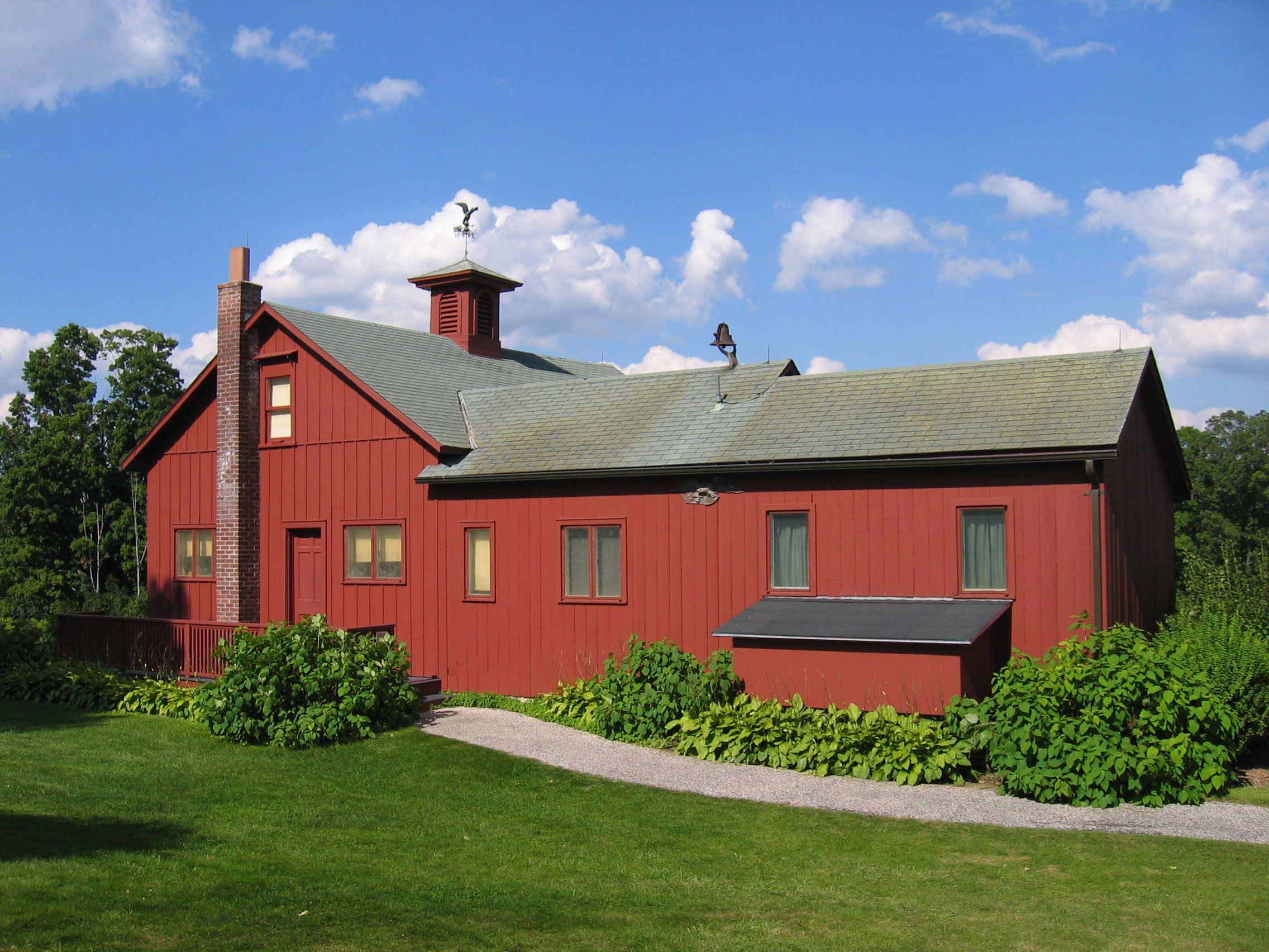 The rear of Norman Rockwell's studio.